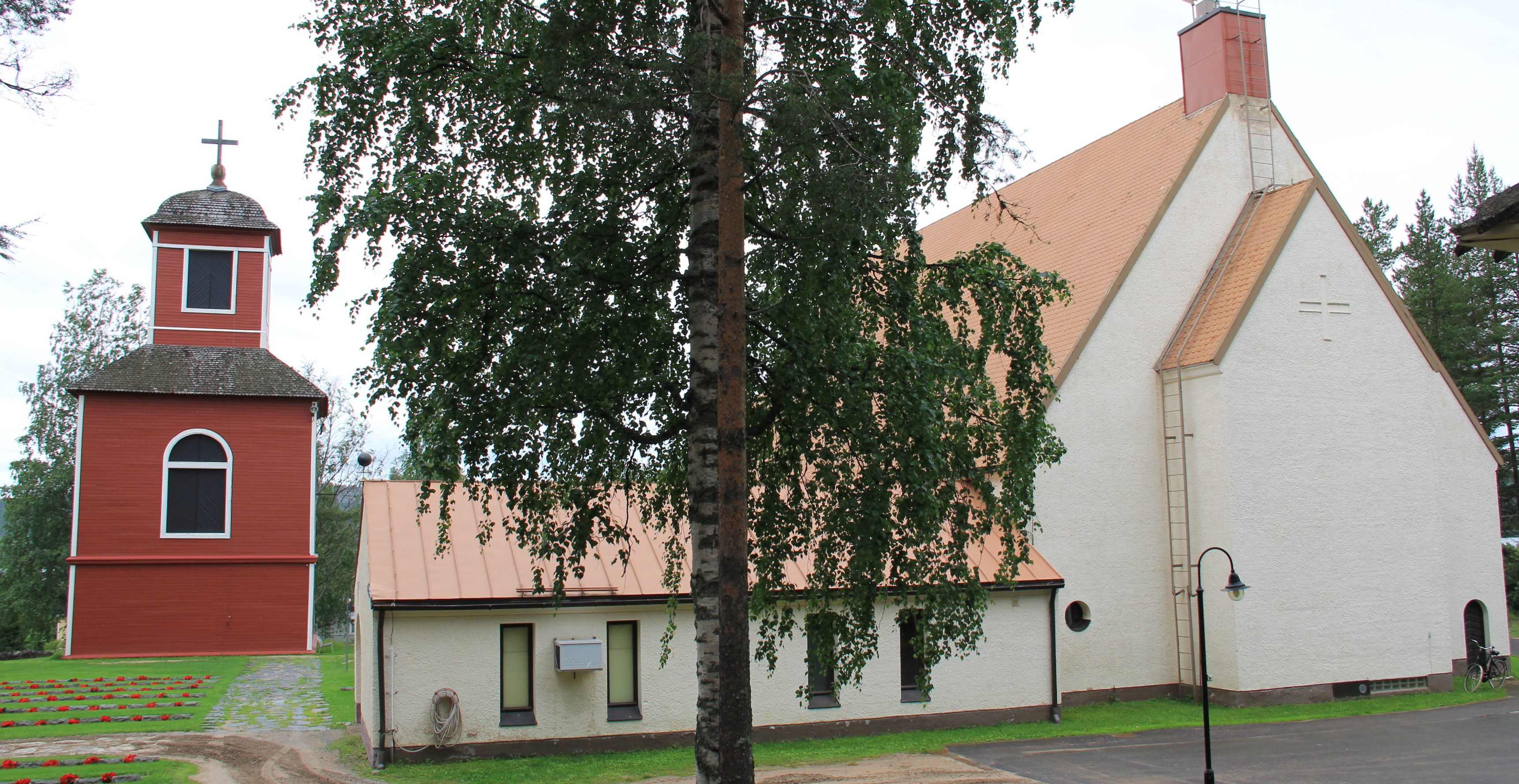 Ylitornio church and bell tower, Ylitornio, Finland. - Seen from east.